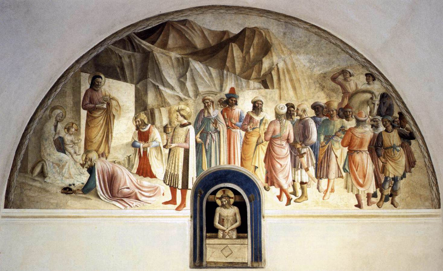 ANGELICO, Fra Adoration of the Kings Fresco Convento di San Marco, Florence